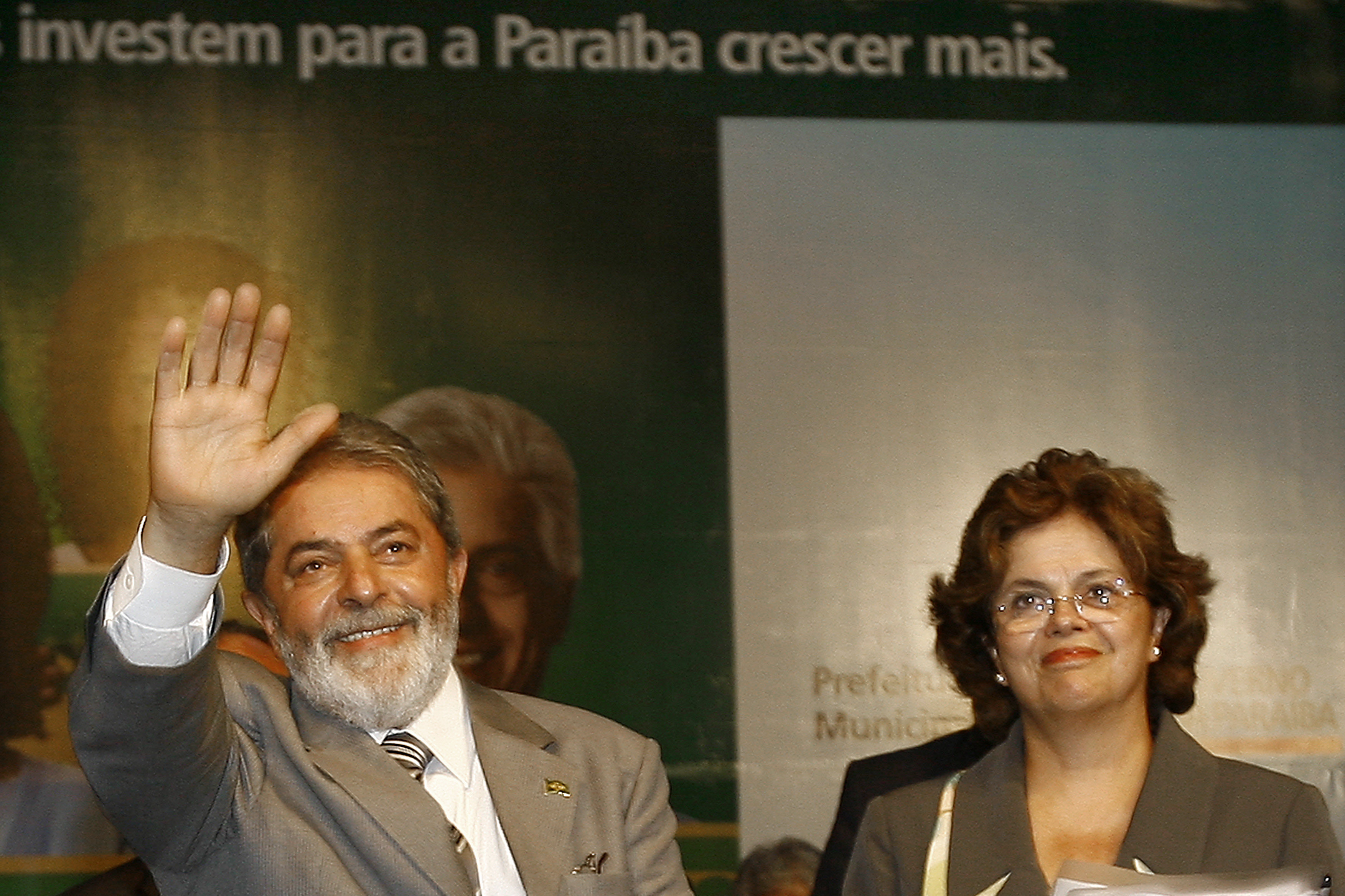 President Lula and Dilma Rousseff in a PAC meeting.